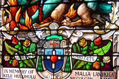 Episcopal arms of Msgr. Boeynaems at the base of the stained glass window of Saint Michael the Archangel, Cathedral of Our Lady of Peace, Honolulu. Pic taken and uploaded September 19 2004 by User: Aloysius Patacsil